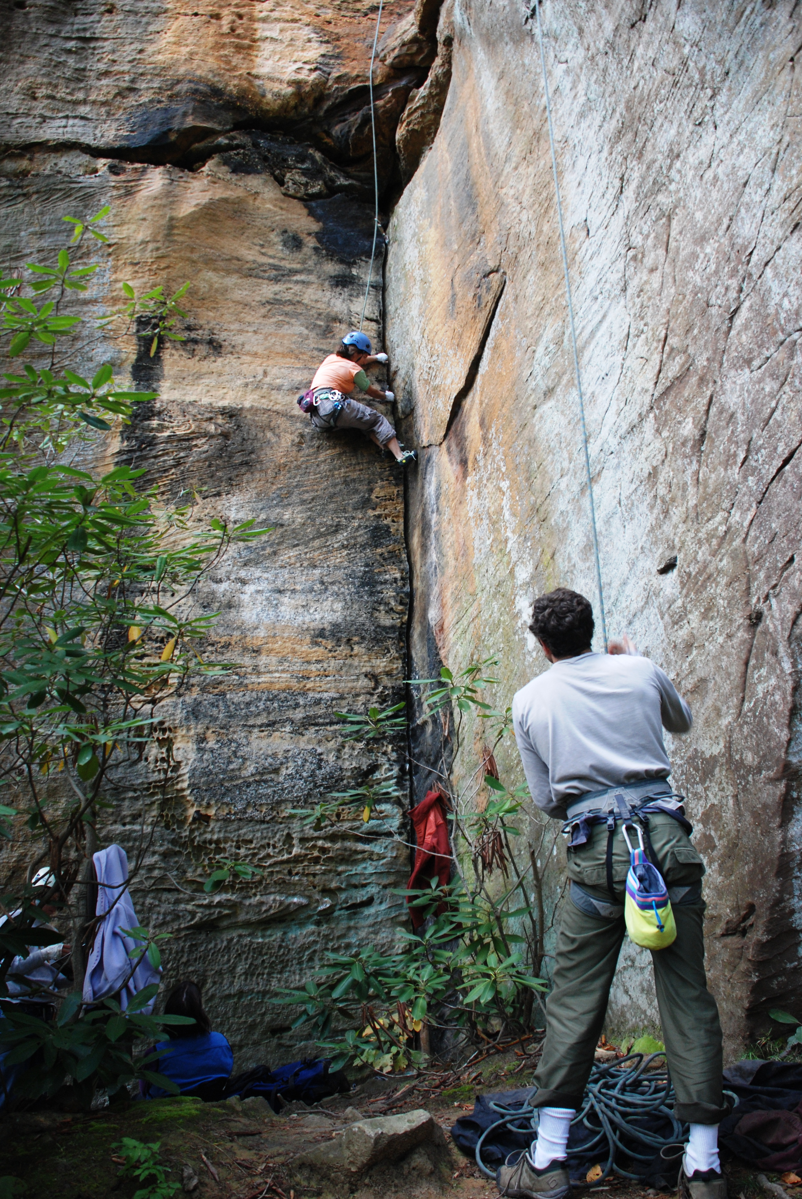 Climbers on Big Money (5.9) in Pebble Beach area in Red River Gorge of Kentucky